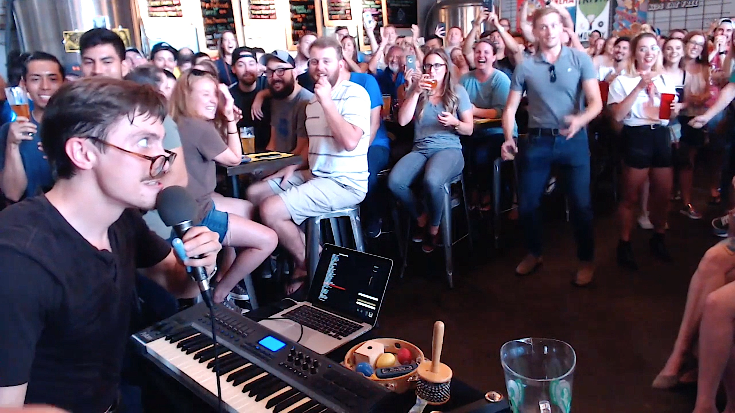 Marc's final performance at Braindead Brewing in Dallas, Texas.